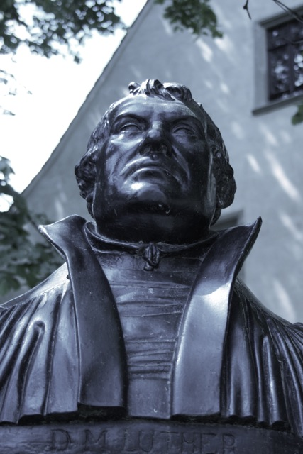 Luther's Birth House: Luther bust in the garden of Luther's Birth House.